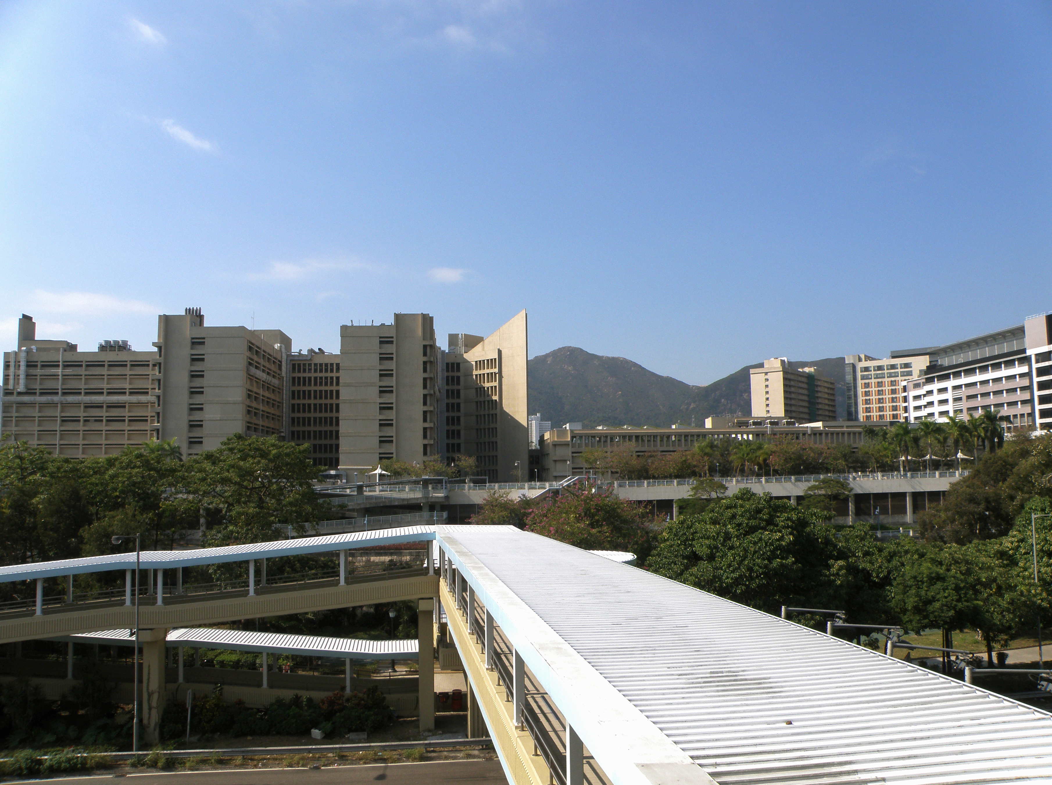 Tuen Mun Hospital in Tuen Mun, Hong Kong.